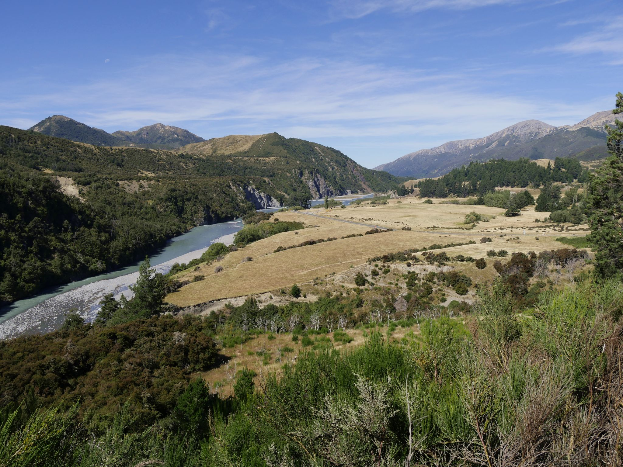 Hope River, North Canterbury, South Island, New Zealand (View from State Highway 7 - 42/35/30/S - 172/29/36/E)